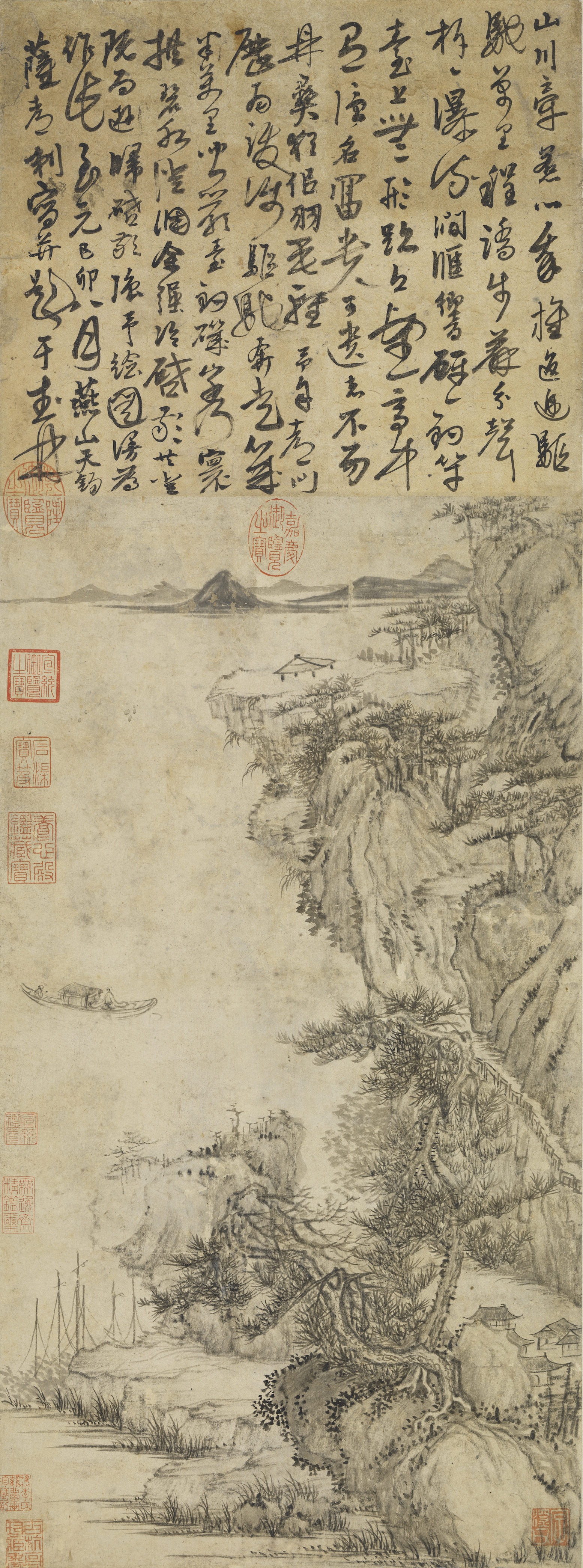 Yan-ling-diao-tai-tu, Sadula, Yuan Dynasty